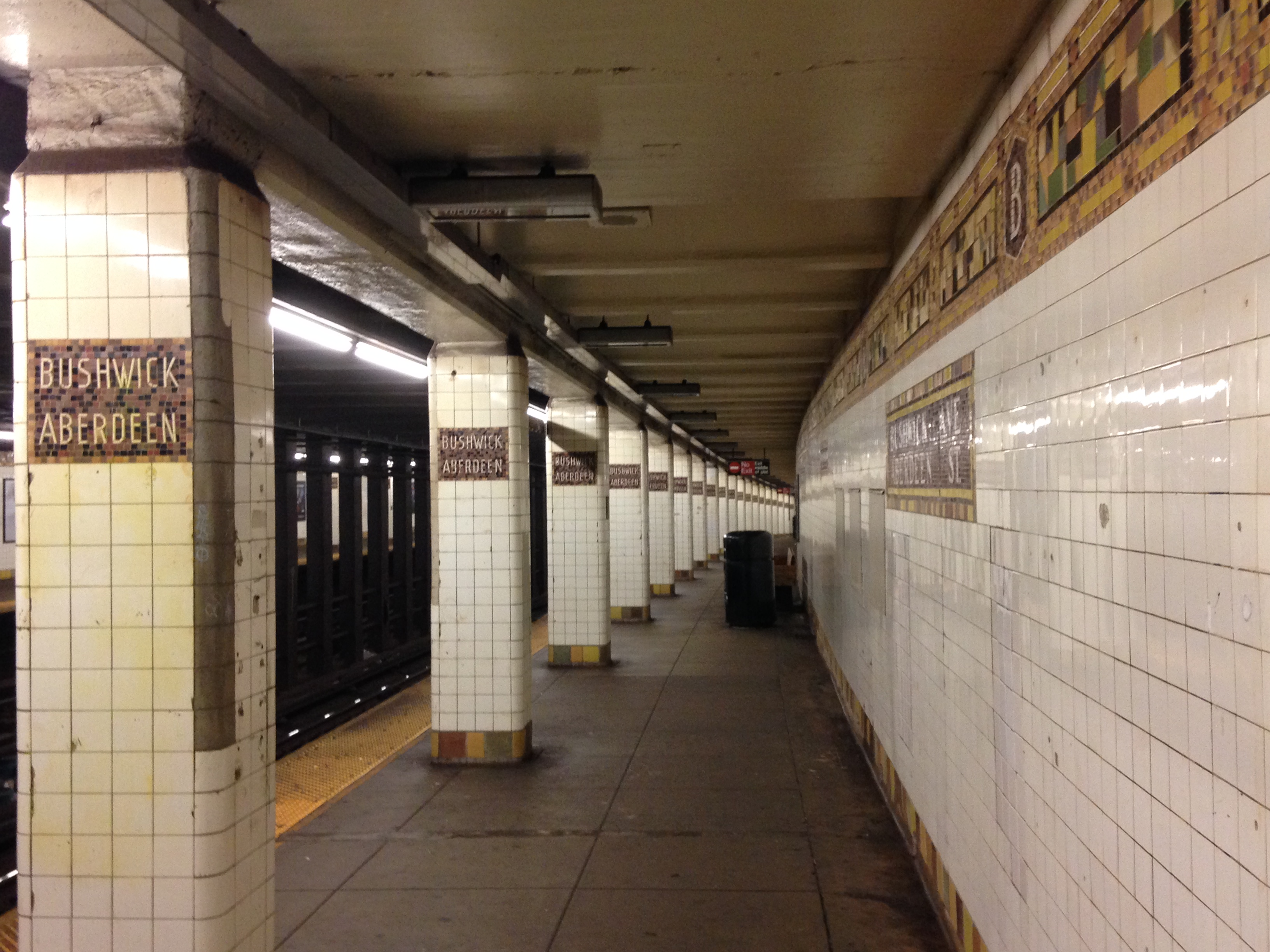 Typical BMT-era mosaics on both the pillars and the walls along the platforms of Bushwick Avenue–Aberdeen Street subway station on the BMT Canarsie Line in the Bushwick section of Brooklyn, New York City.